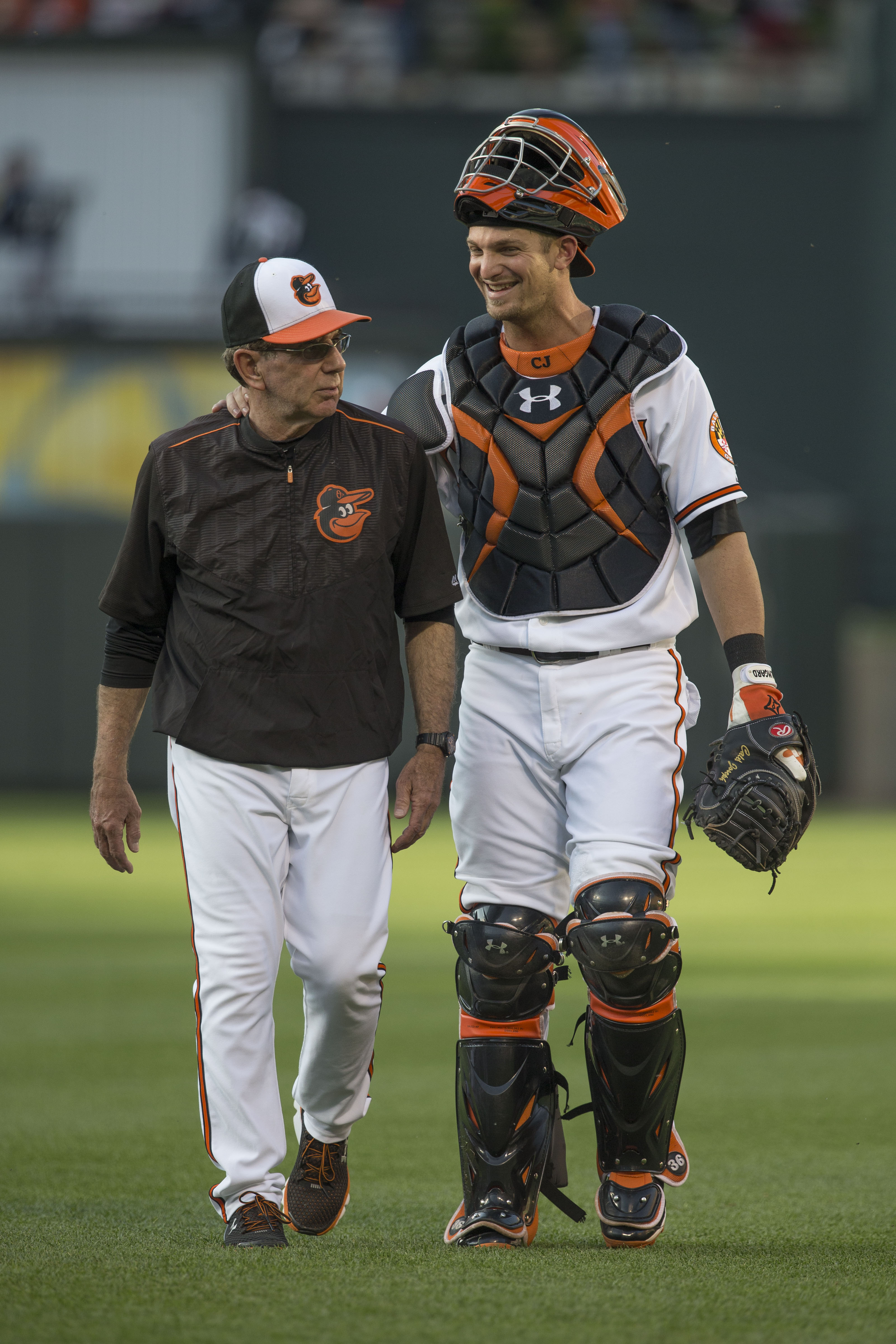 Mariners at Orioles 5/19/15